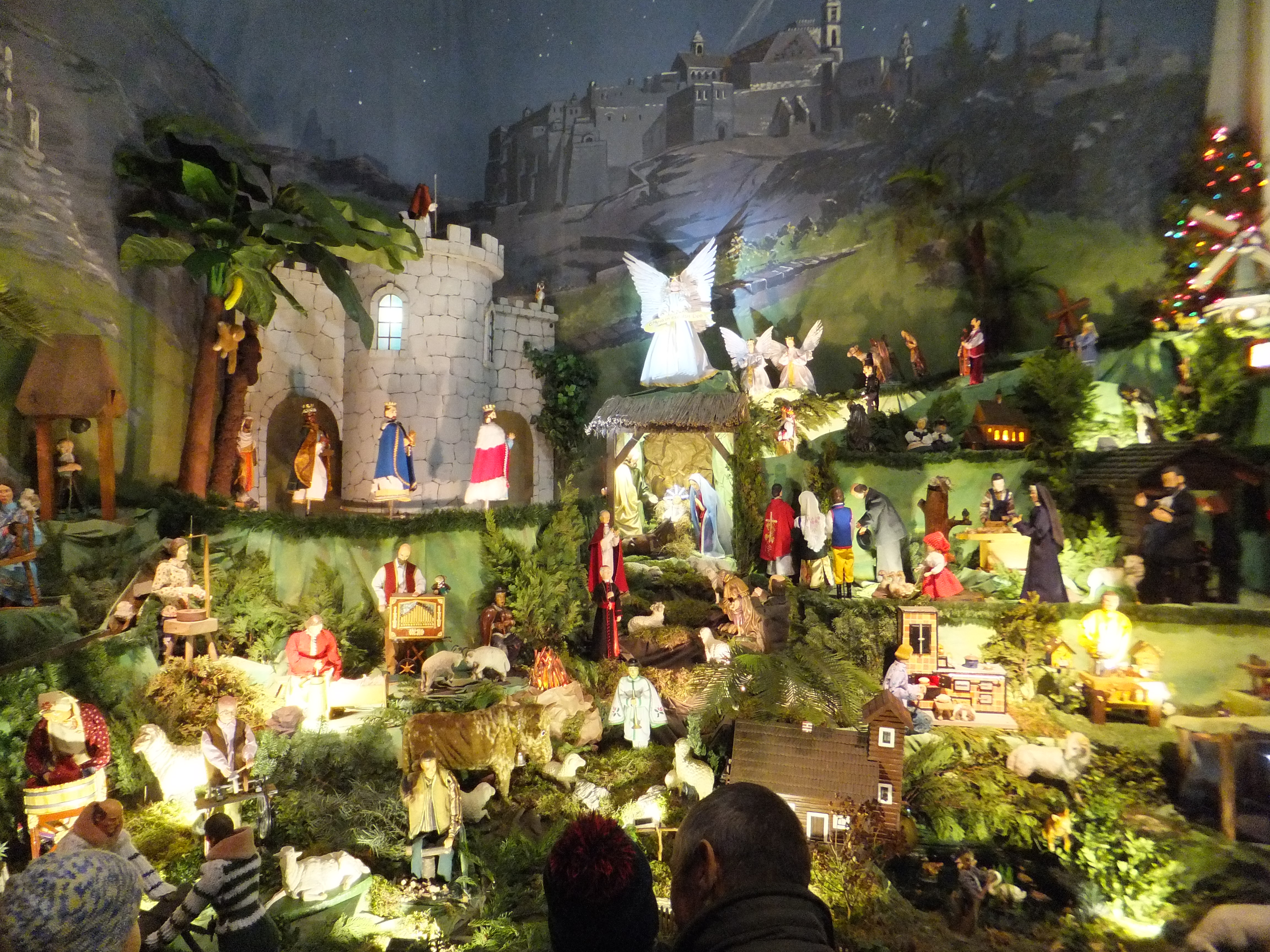 Moving crib in Saint Bartholomew church in Bieruń (Poland). Moving crib is built every year since 1955. It consists of more than 100 figures (most of the figures moving).